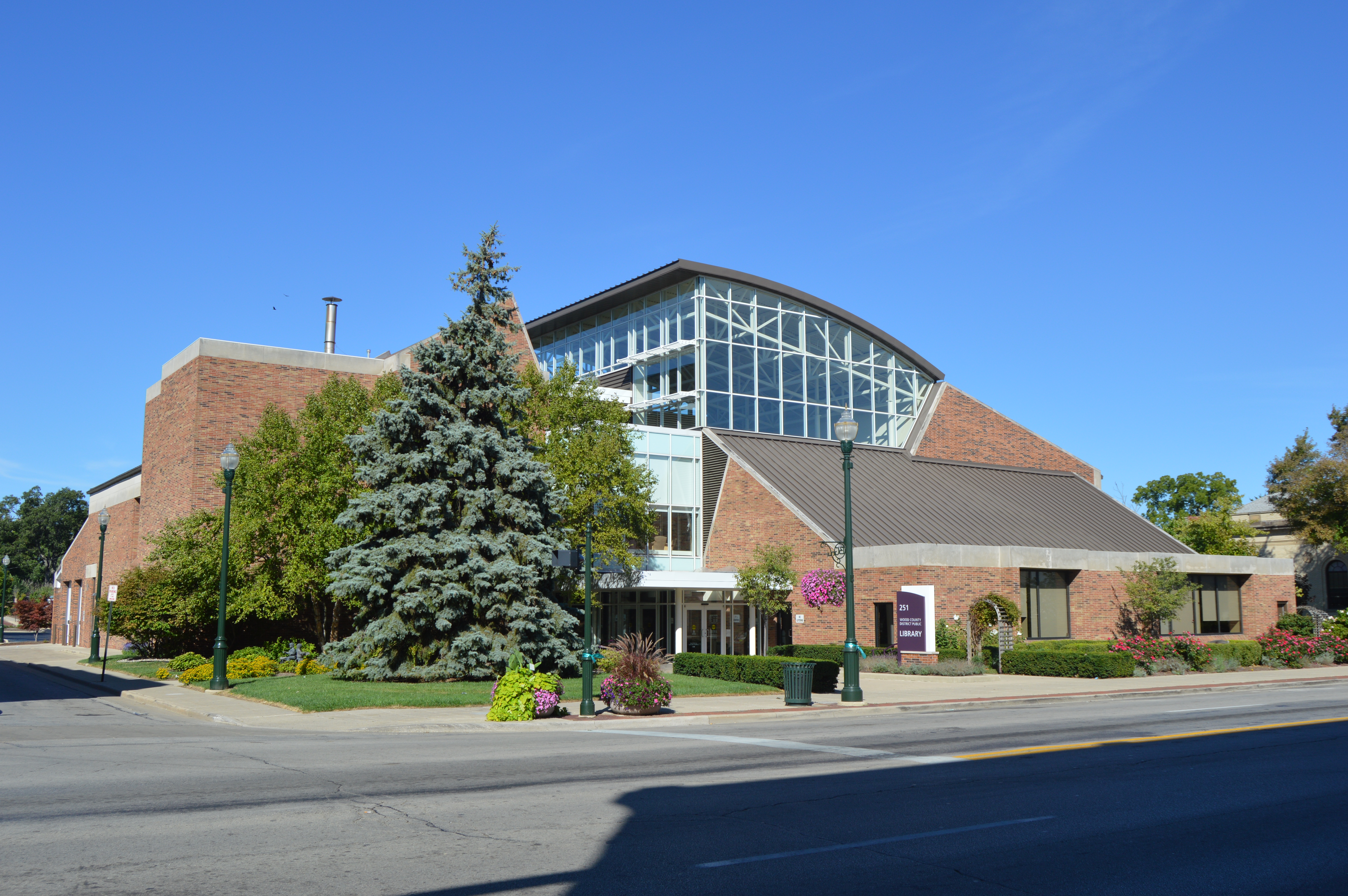 Front and southern side of the central branch of the Wood County District Public Library, located at 251 N. Main Street (State Route 25) in downtown Bowling Green, Ohio, United States. It was built in 1973.